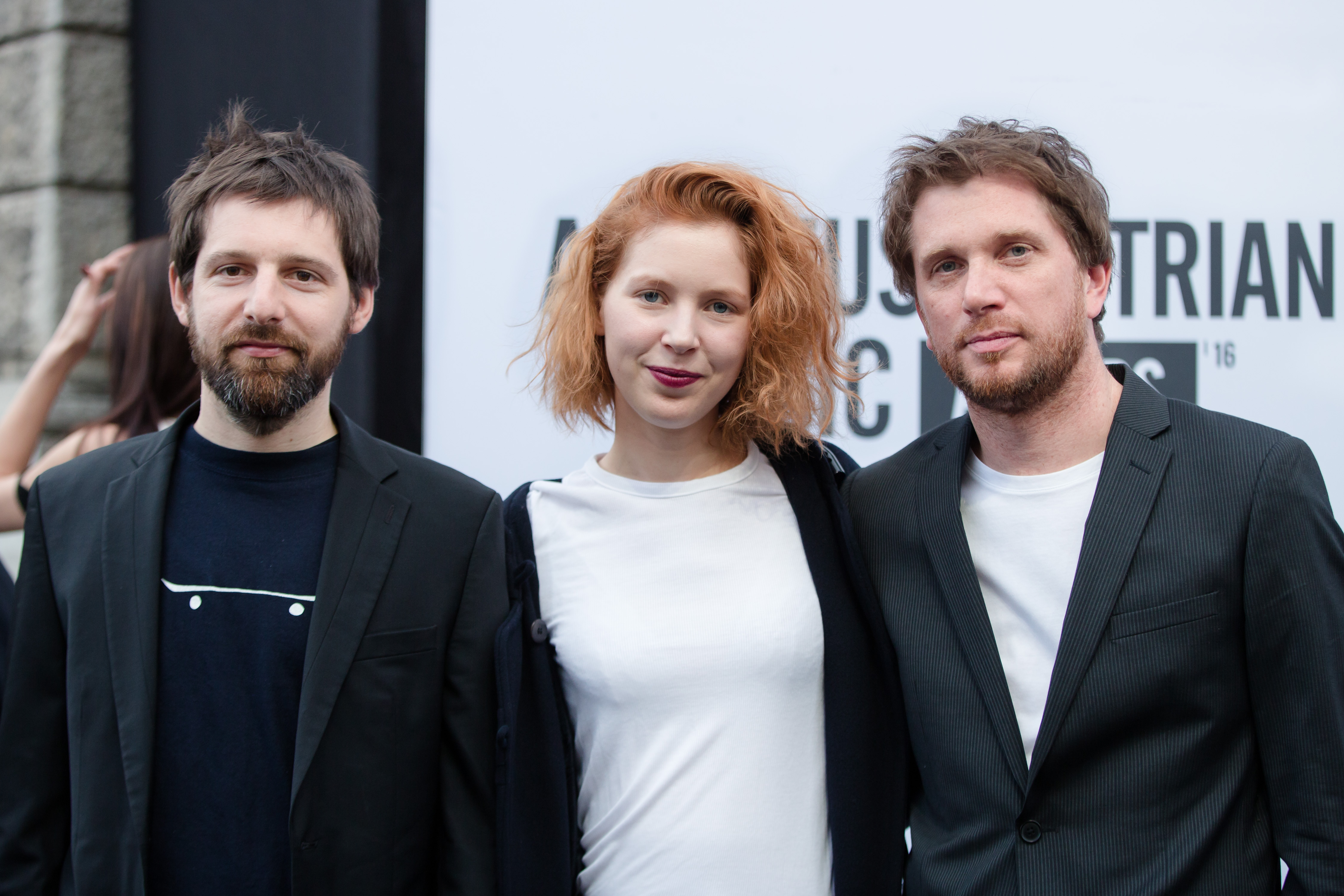 Schmieds Puls at the Amadeus Austrian Music Award 2015 at Volkstheater in Vienna